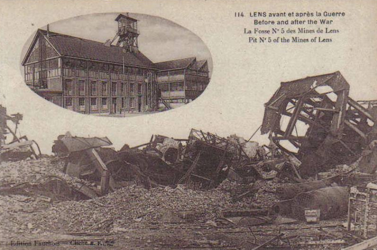 Coalpits n° 5 - 5 bis, Compagnie des mines de Lens, Avion, Pas-de-Calais, France.